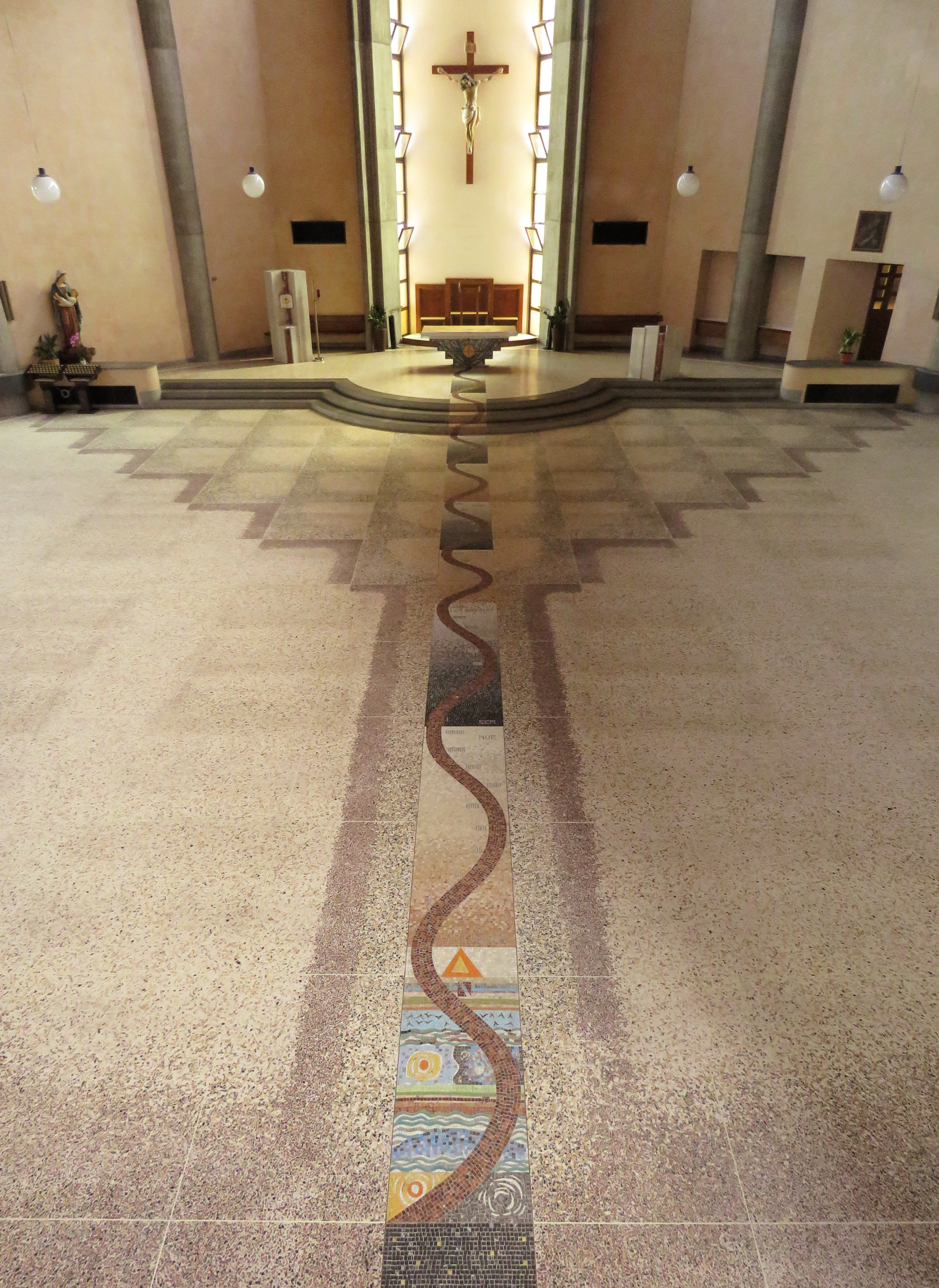 Floor of the church: a stylized life tree indicating the History of Salvation, from the night of the Creation (entrance) to Jesus (altar).